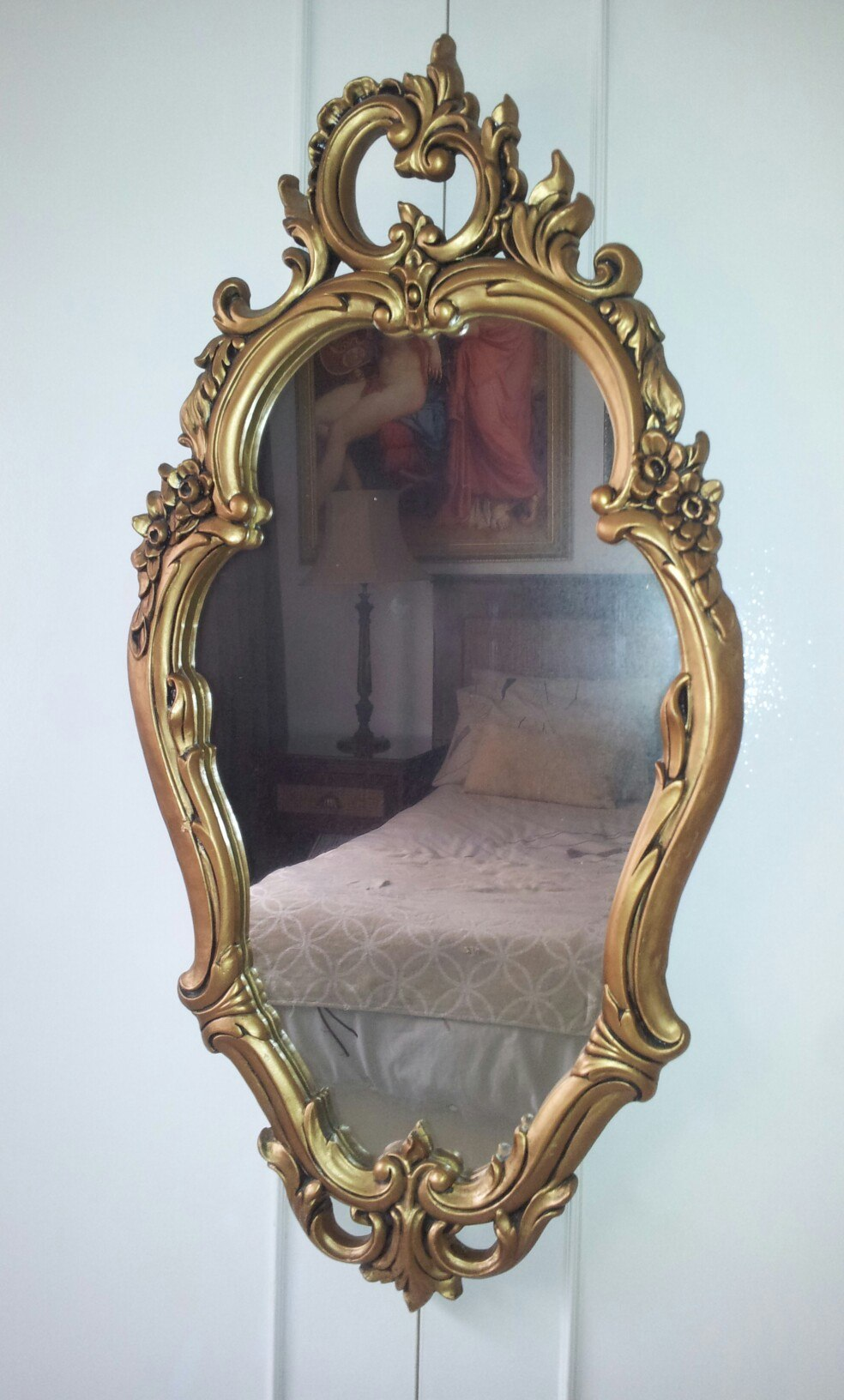 barque mirror from Italy